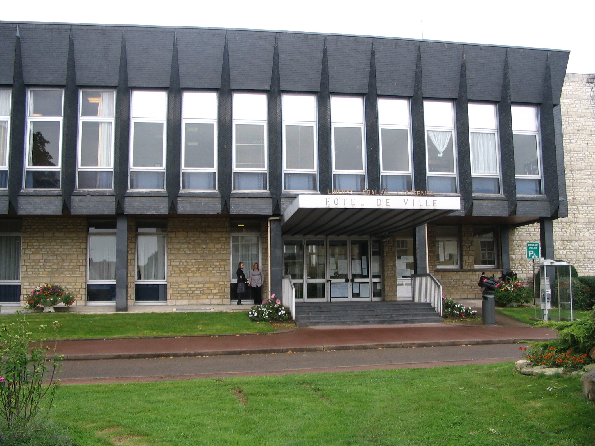 Limeil-Brévannes' townhall, in Val-de-Marne, France.